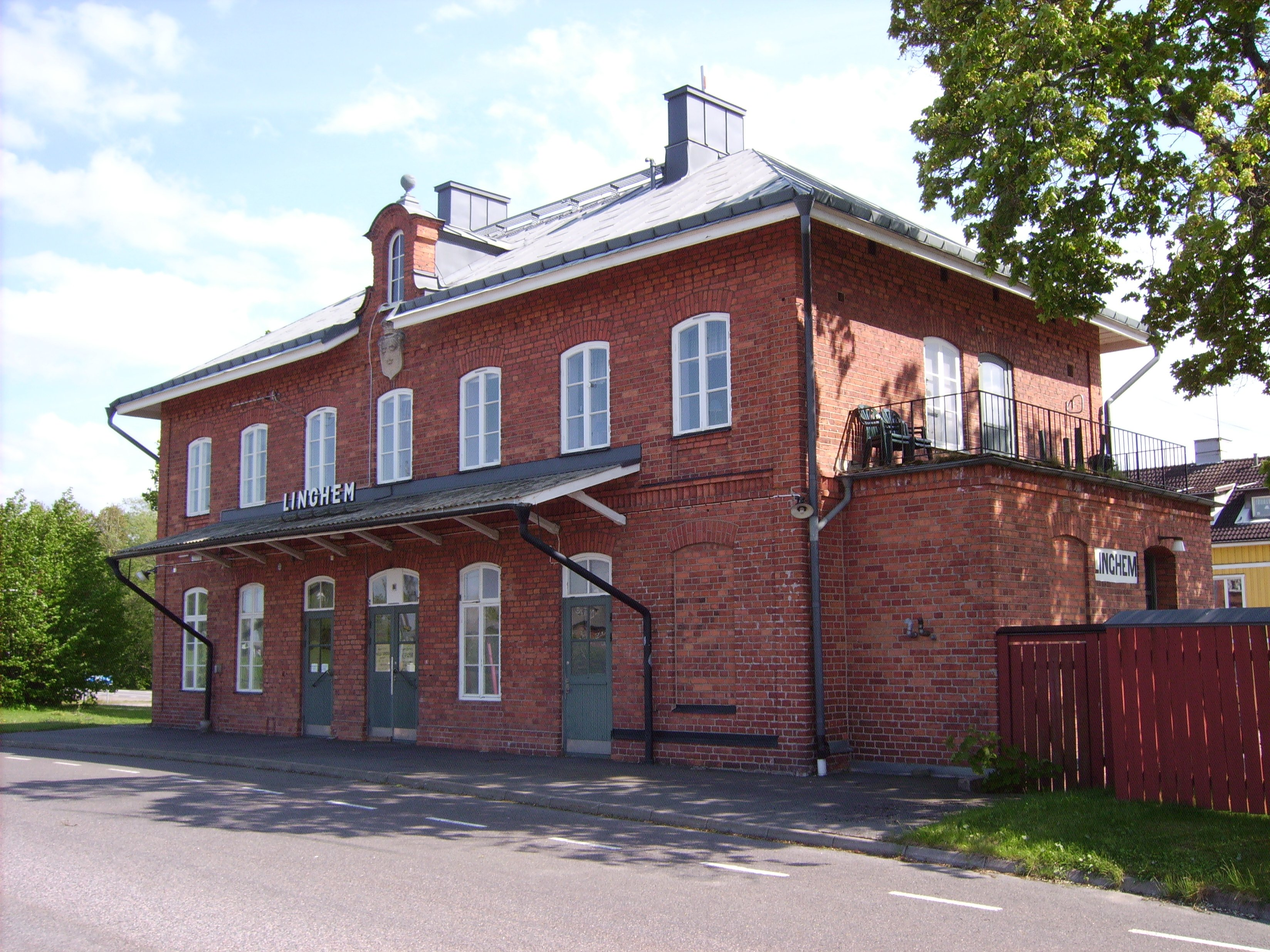 Linghem railway station